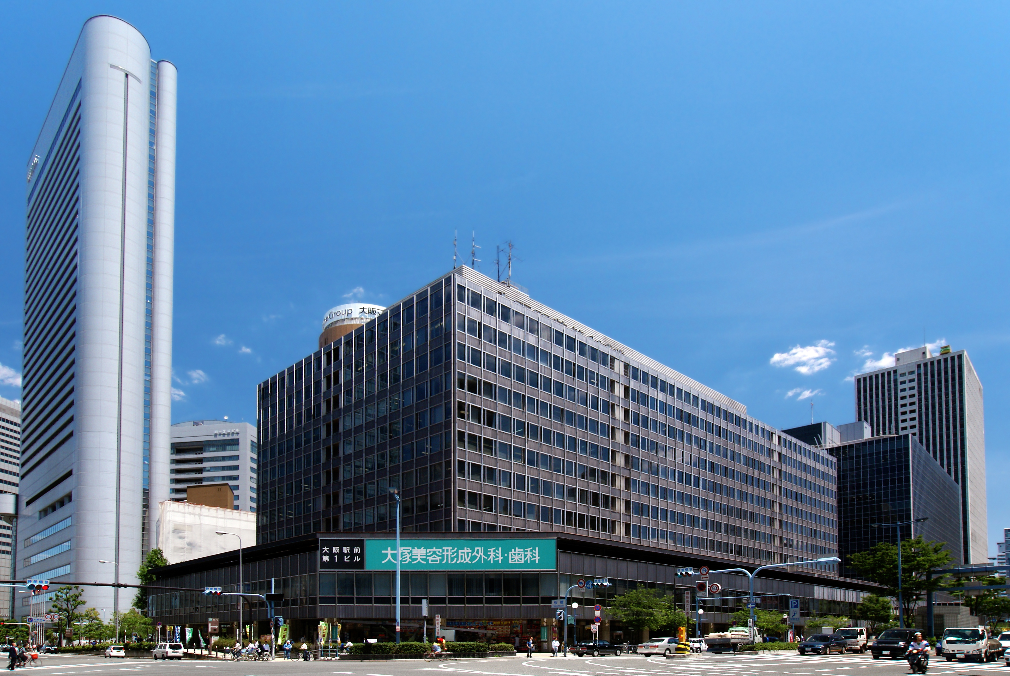 At Umeda in Osaka, Japan